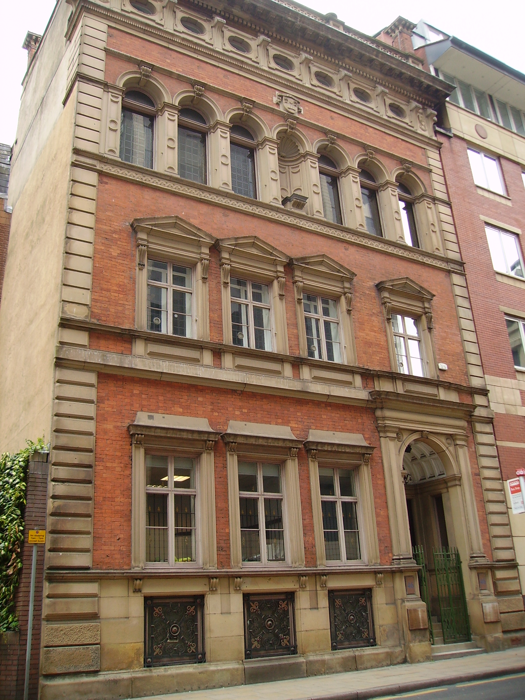 Former Estate Exchange, 46 Fountain Street, Manchester